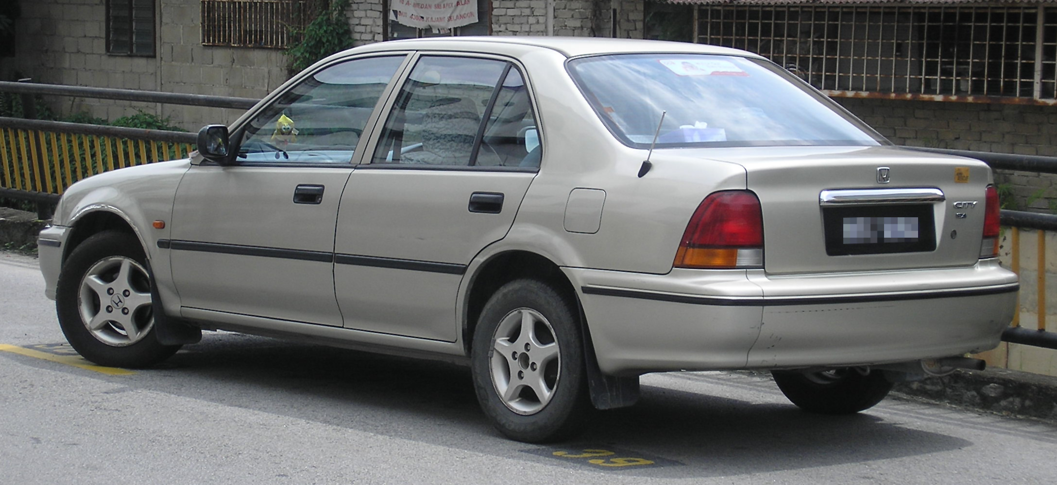 Rear-side shot of a third generation Honda City, in Kajang, Selangor, Malaysia.